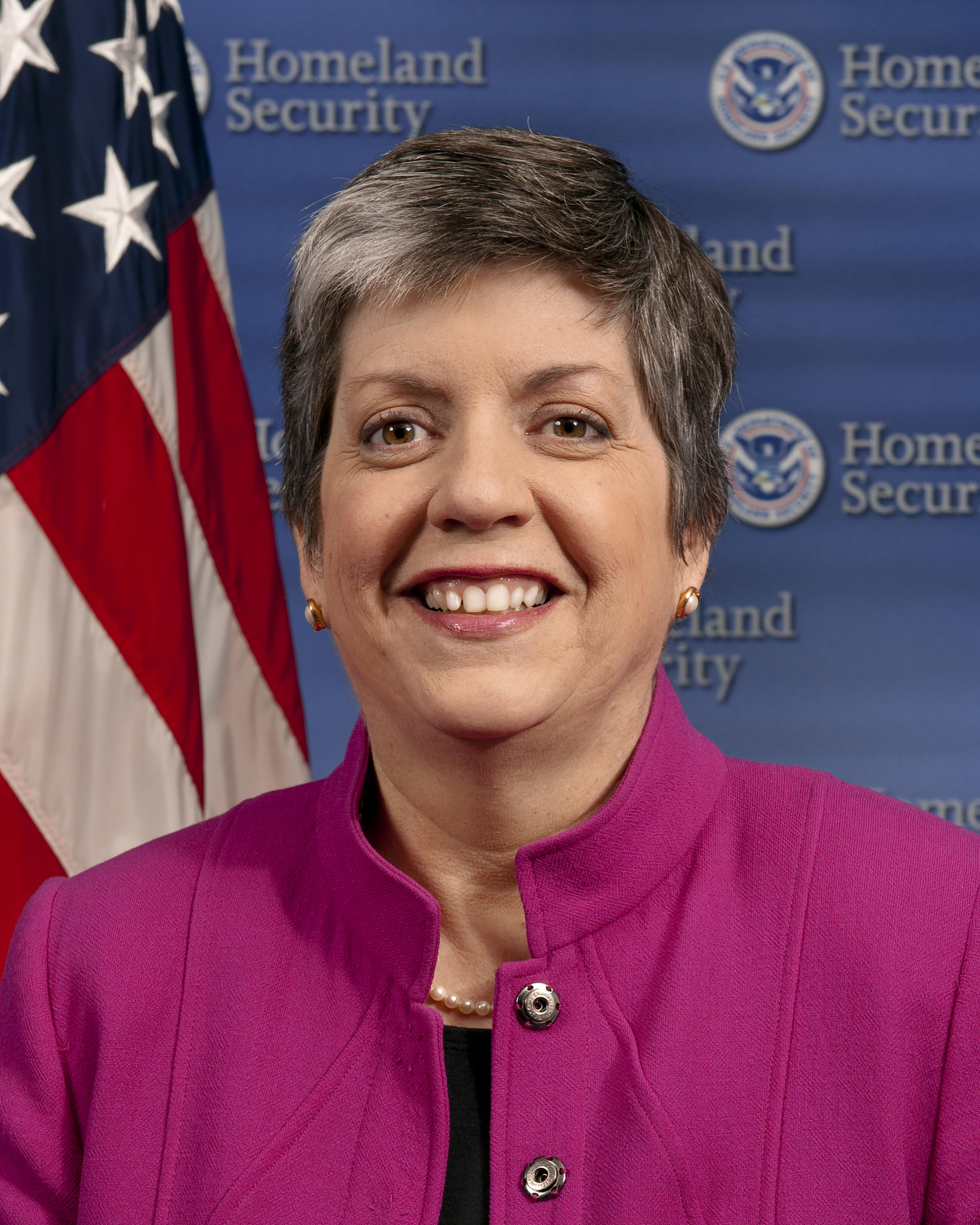 Official portrait of United States Secretary of Homeland Security Janet Napolitano